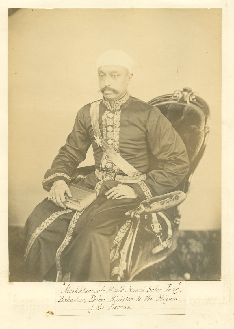 The Nizam's indispensable Prime Minister, Sir Salar Jung (1829-83), in an undated photo Source: ebay, Apr. 2009